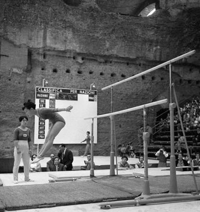 Kazuko Sogabe at the Rome Olympics